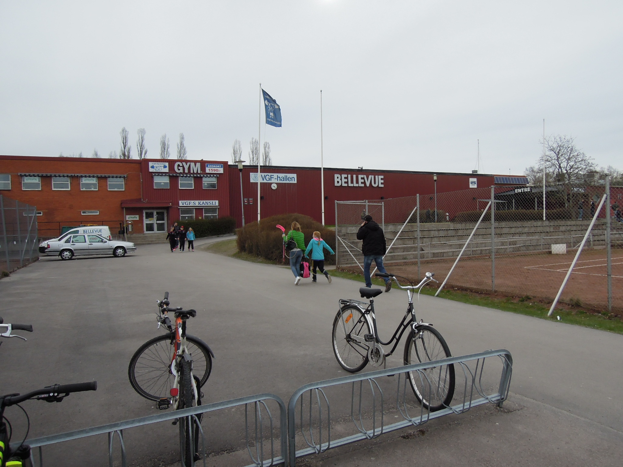 Bellevuestadion in Västerås